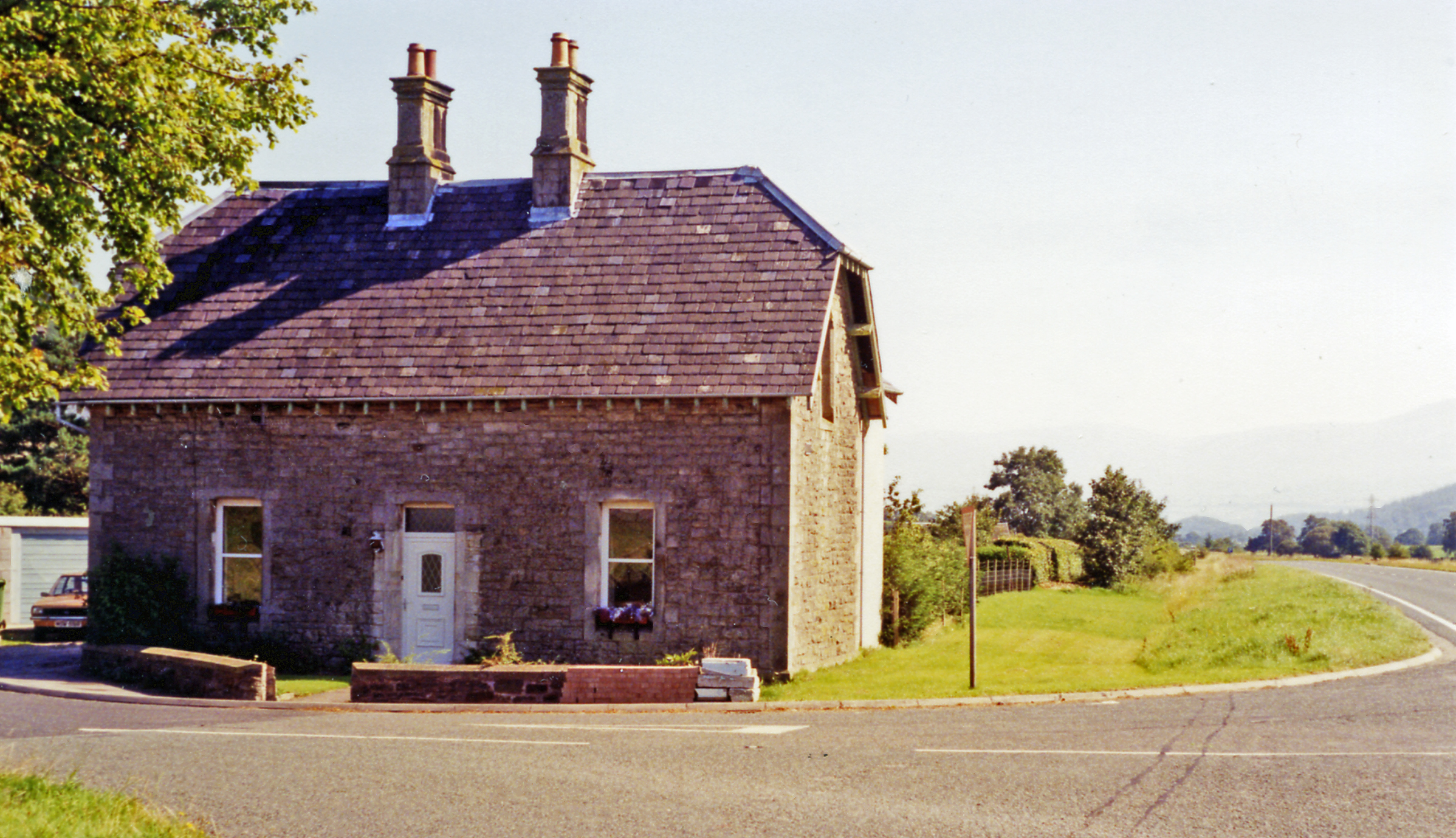 Site of former Embleton station, 1991. View eastward on the A66 road at Lambfoot, towards Keswick and Penrith: ex-LNW Cockermouth, Keswick & Penrith Railway. Embleton station here was closed 19/9/58 but the passenger and goods services on the line Workington - Keswick continued until 18/4/66, Keswick - Penrith 6/3/72. (It seems unlikely that the fine house remaining was the Station House, as it is angled sideways to the track-bed, which ran straight ahead).